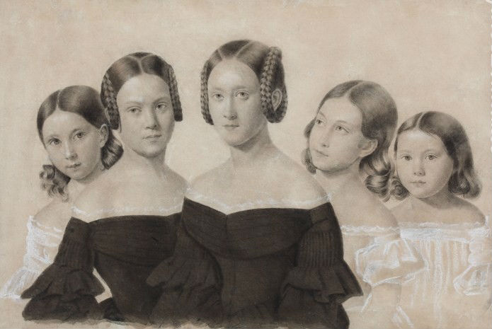 Portrait of Sisters Yelisaveta, Maria, Praskovya, Alexandra and Anna Dyakov